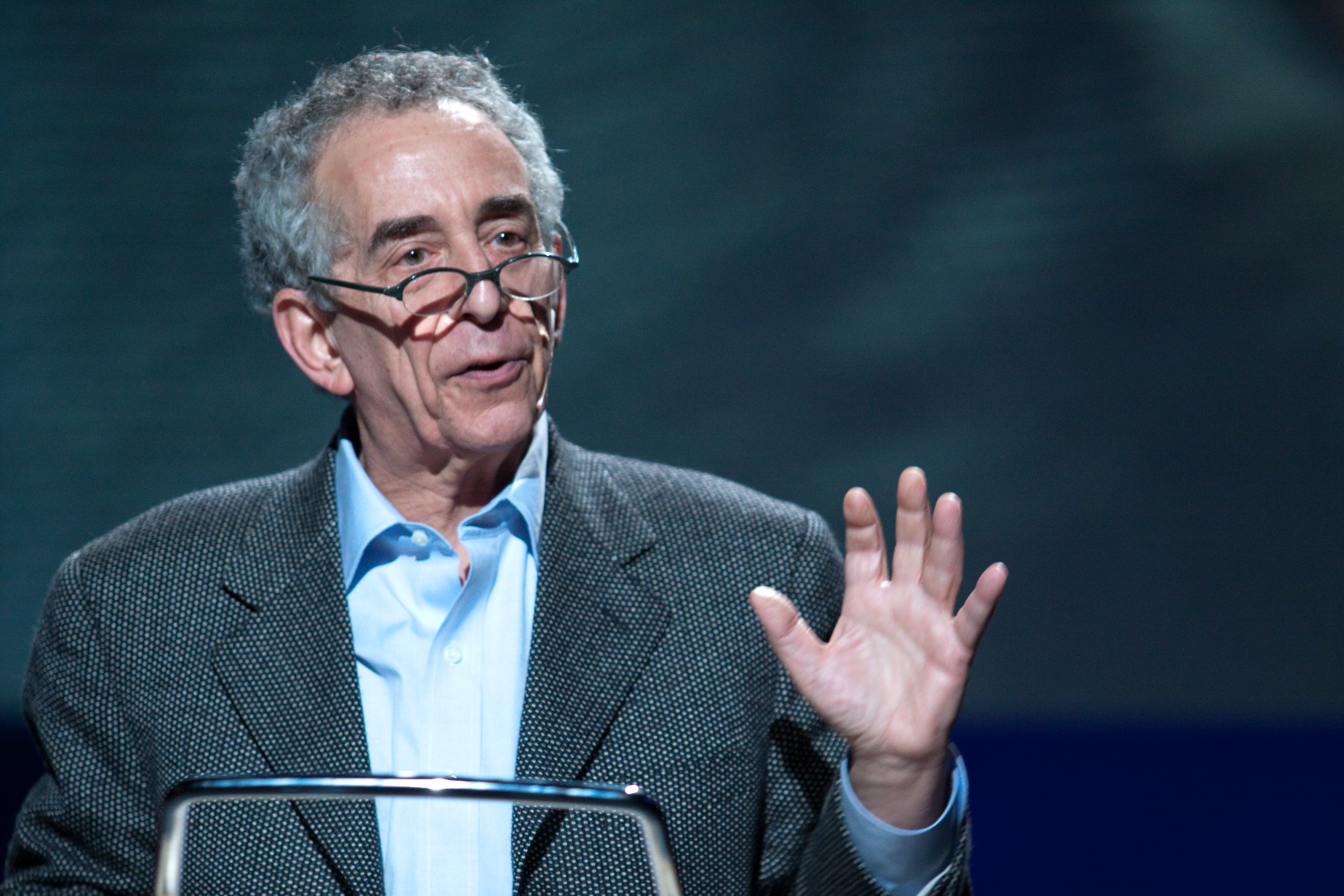 Barry Schwartz speaking at TED 2009